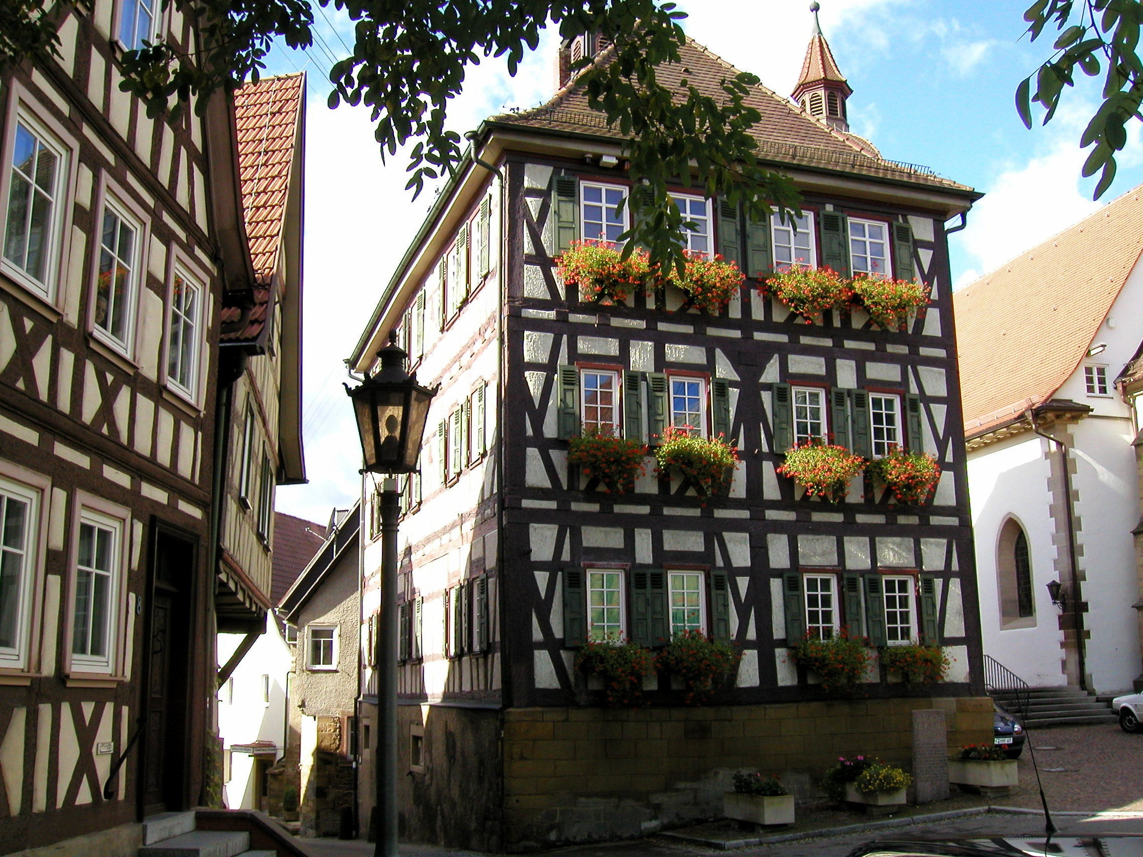 Faustmuseum Außenansicht